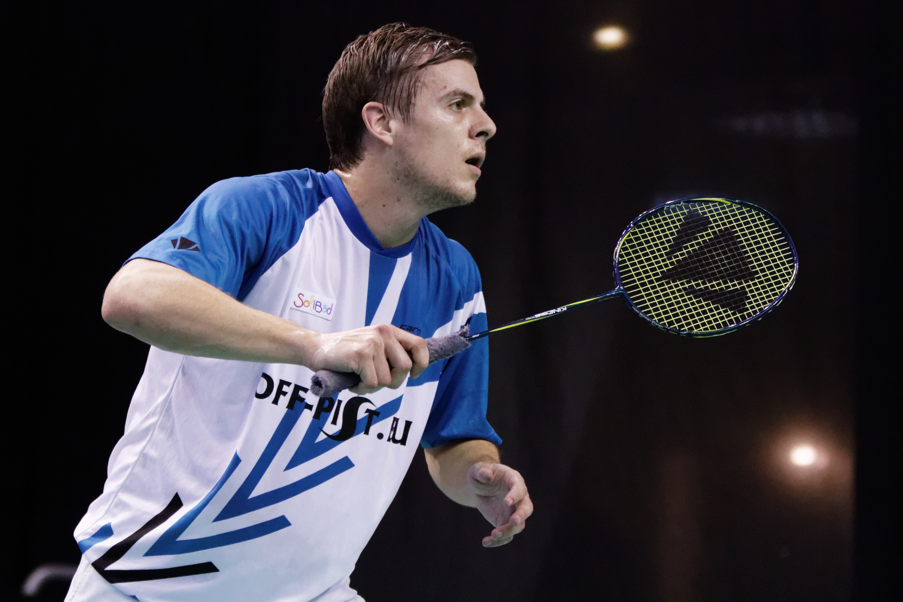 2013 French open. Men's singles eightfinal. Hans-Kristian Vittinghus vs Jan Ø. Jørgensen.